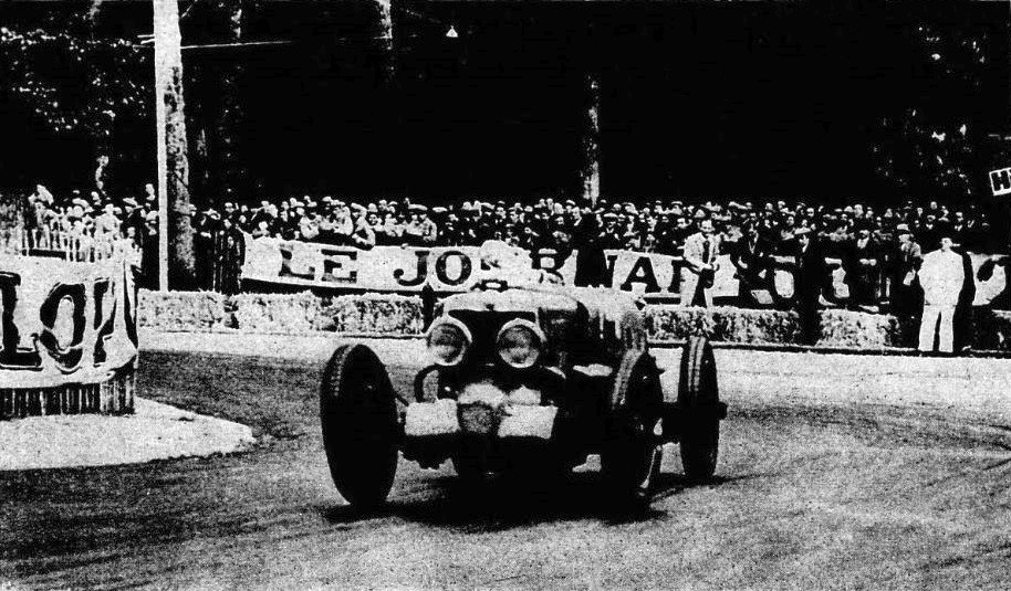 Philippe Maillard-Brune won the Bol d'Or automobile on 21 May 1934 in a MG Magnette K3.